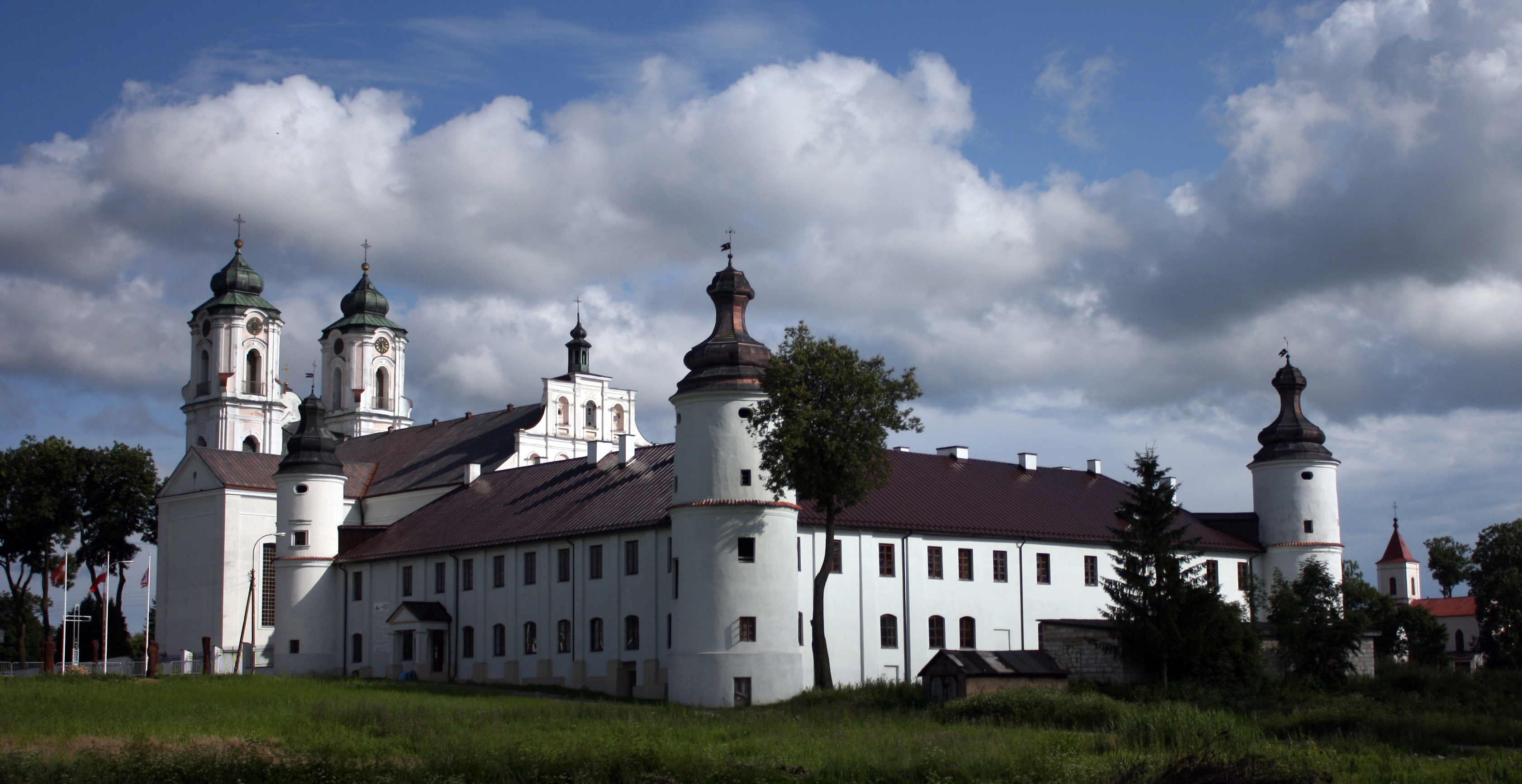 Sejny (Podlasie Voivideship). Church of Visitation of Virgin Mary and former Dominican Monastery